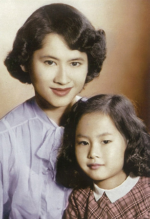 Galyani Vadhana, Princess of Naradhiwas and her only daughter, Dhasanawalaya Sornsongkram (né Ratanakul Seriroengrit)